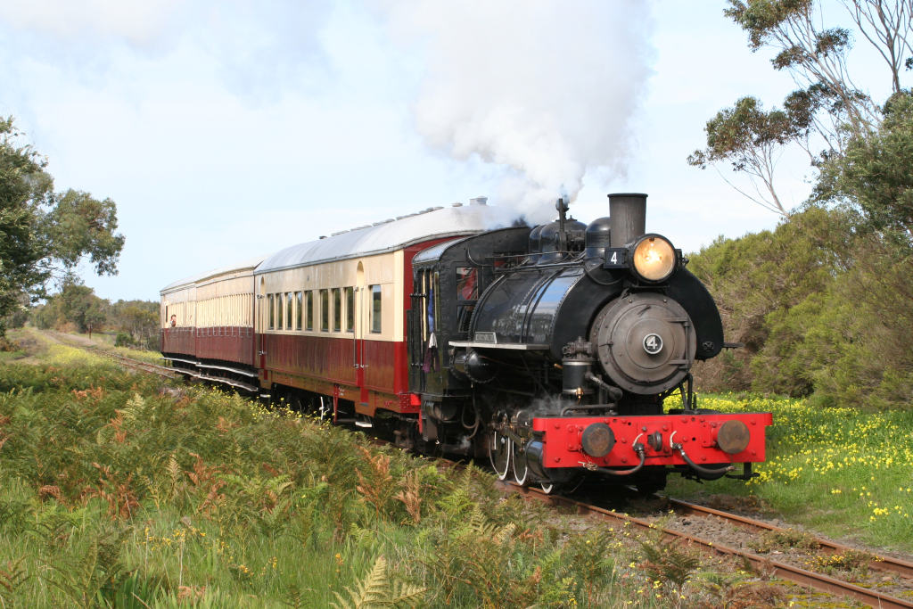 Ex Fyansford Cement Works Railway steam locomotive No4 on the Bellarine Peninsula Railway, Victoria, Australia.